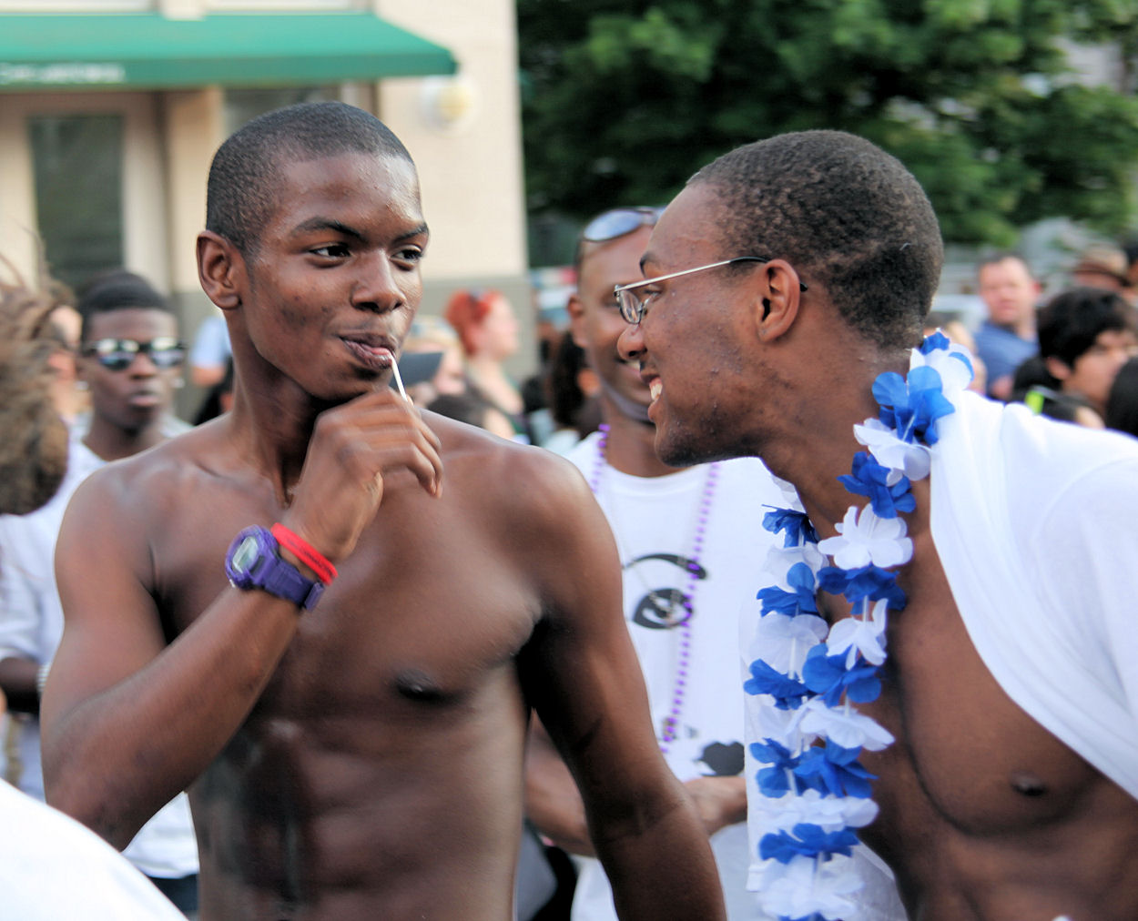 Handsome young African American men walk at Capital Pride. Capital Pride is Washington, D.C.'s lesbian, gay, bisexual, transgender, transsexual, and questioning annual parade and festival. In 2011, the parade was on June 11 from 6 to 8 PM.